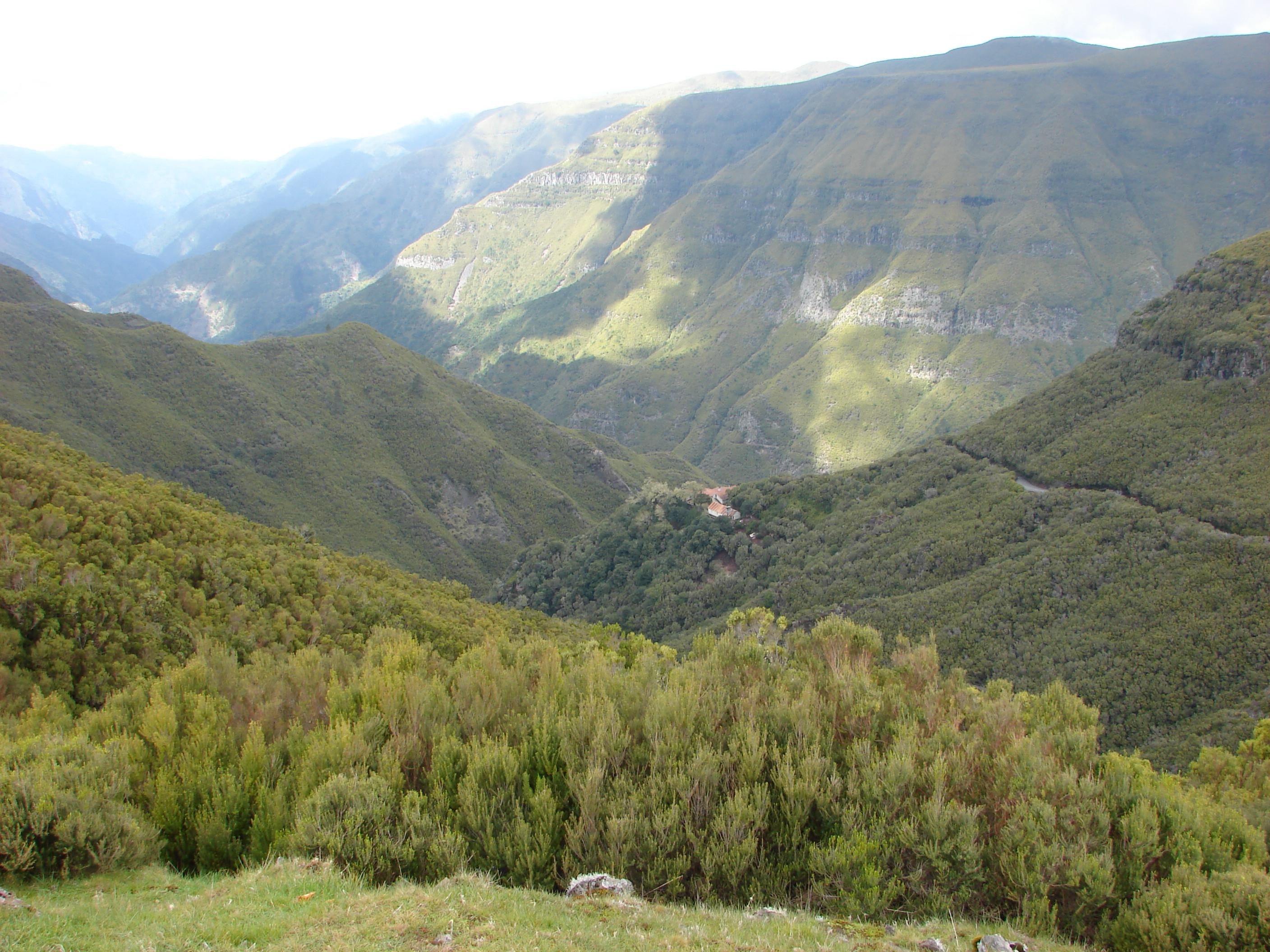 A valley in Madeira. 2007